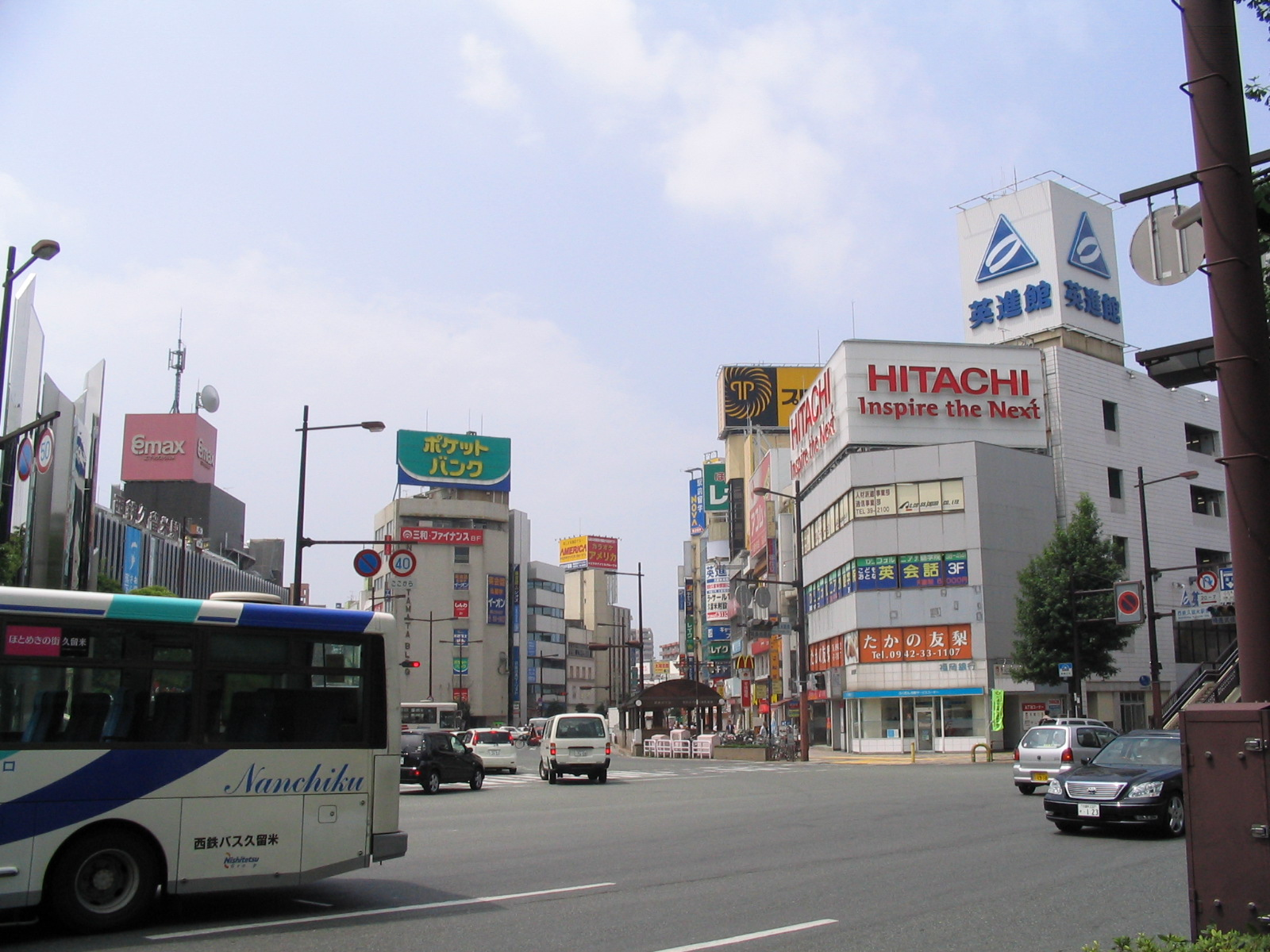 Downtown Kurume in Fukuoka prefecture.